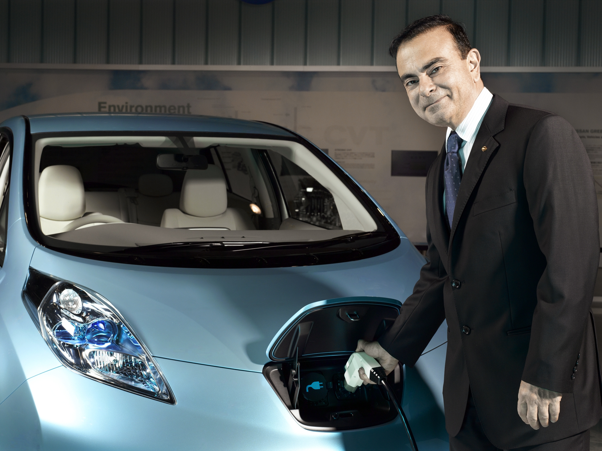 Nissan CEO Carlos Ghosn charges a Nissan Leaf, the first mass-produced zero-emission vehicle.